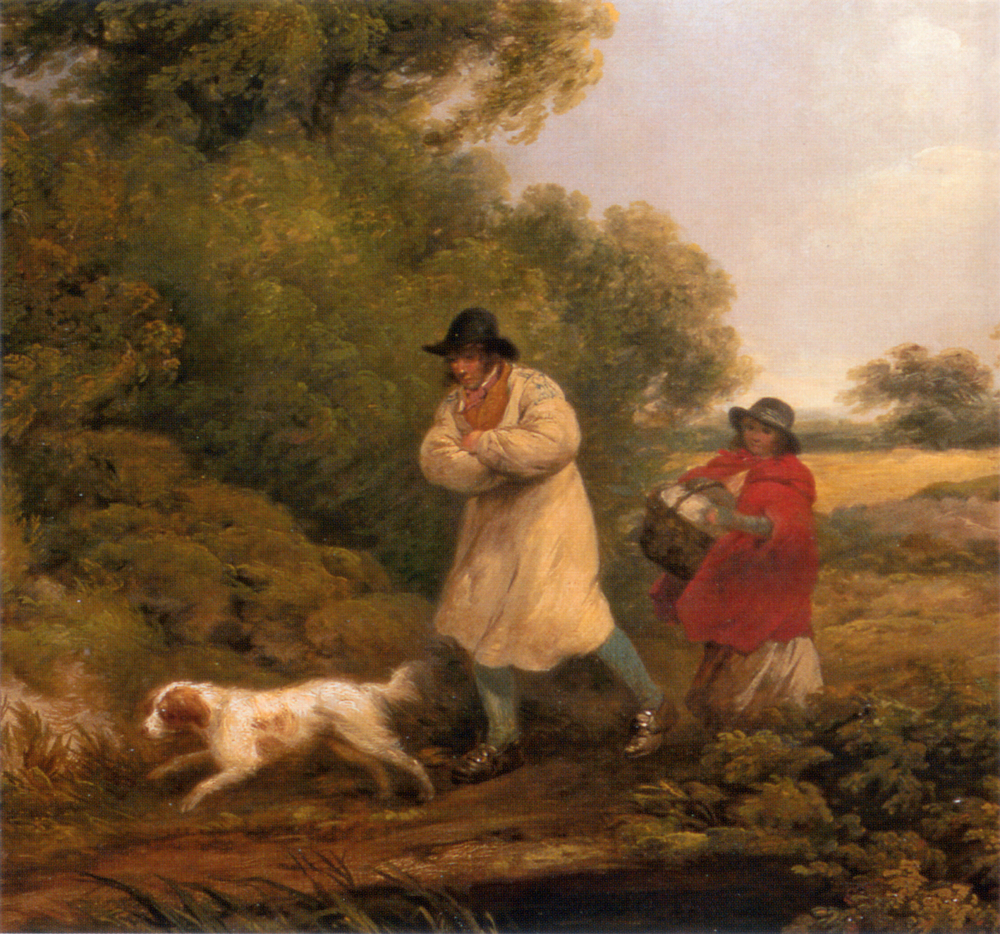 A Windy Day